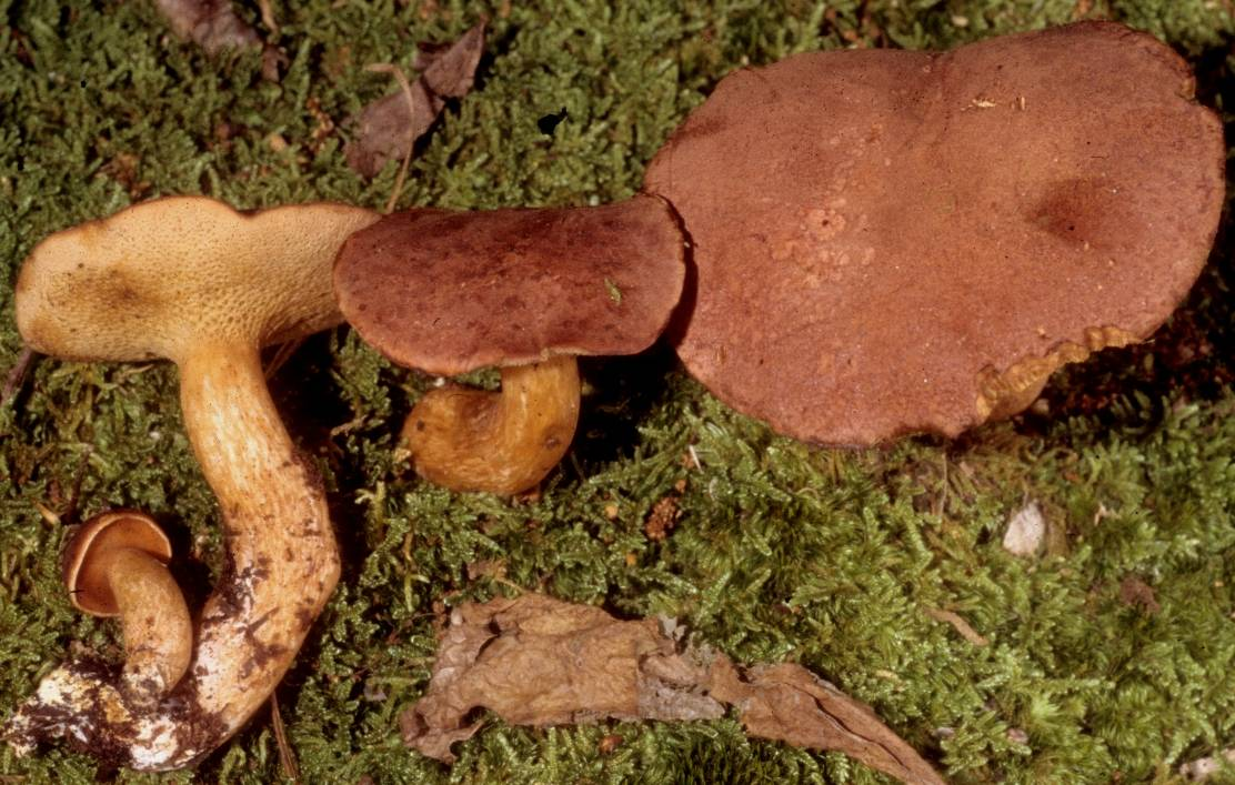 Fruit bodies of the bolete mushroom Bothia castanella (Peck) Halling, T.J.Baroni & Manfr.Binder. Specimens collected from Clear Creek State Forest, Pennsylvania, USA.